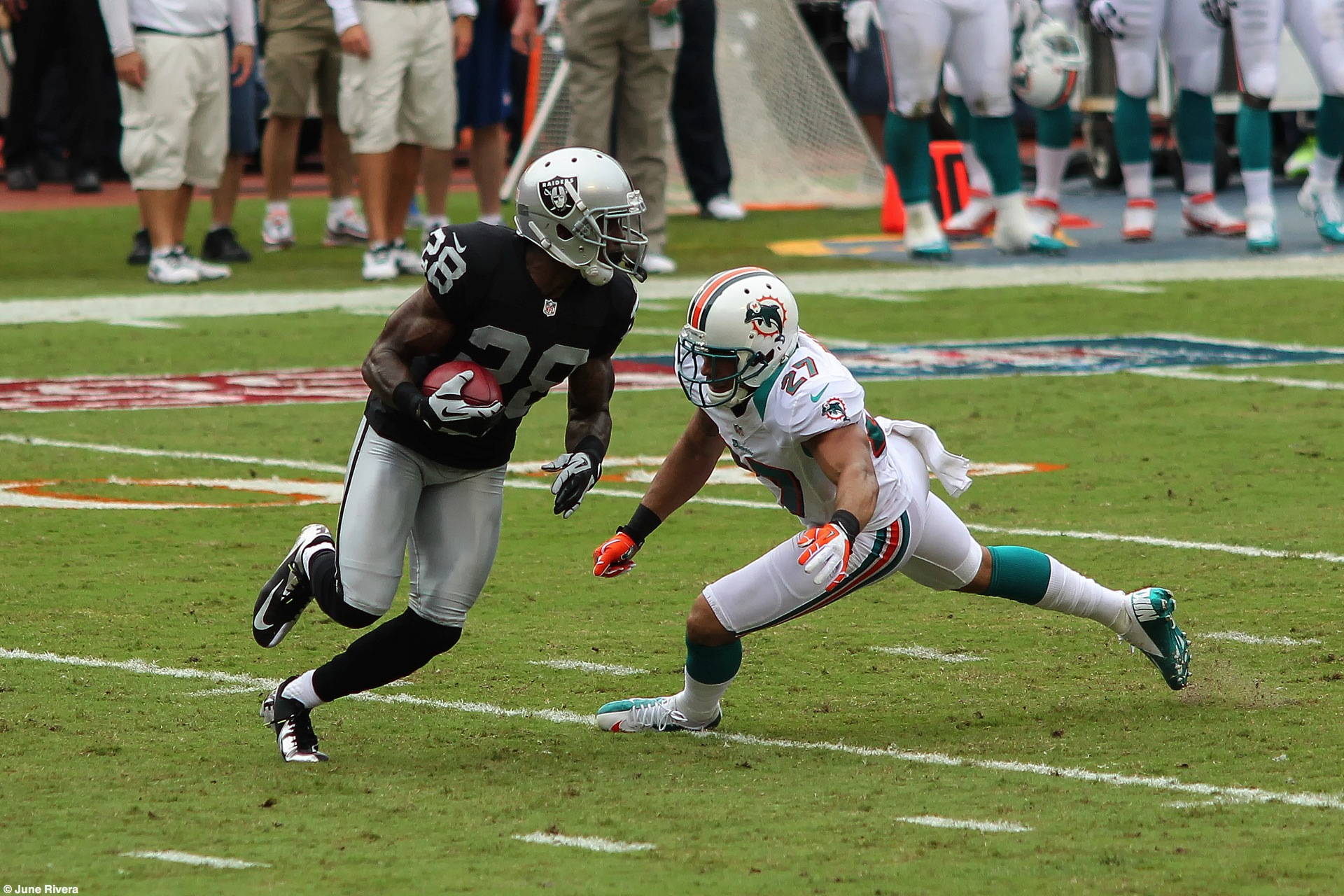 Raiders running back Phillip Adams runs with the ball, while Miami Dolphins cornerback Jimmy Wilson tries to tackle him.